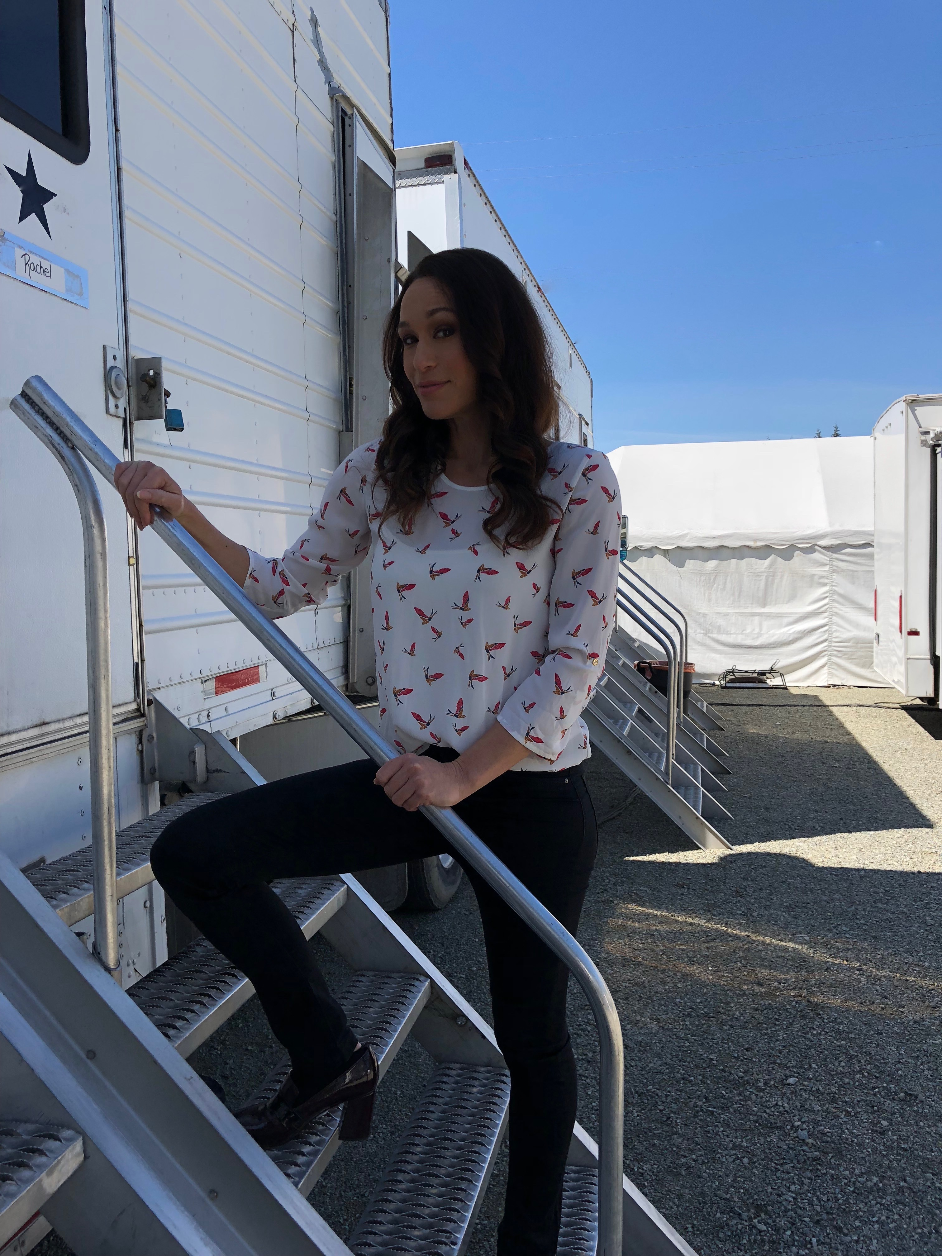 Sharon Taylor